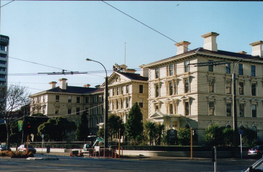 The Law School of the Victoria University, Wellington, New Zealand.